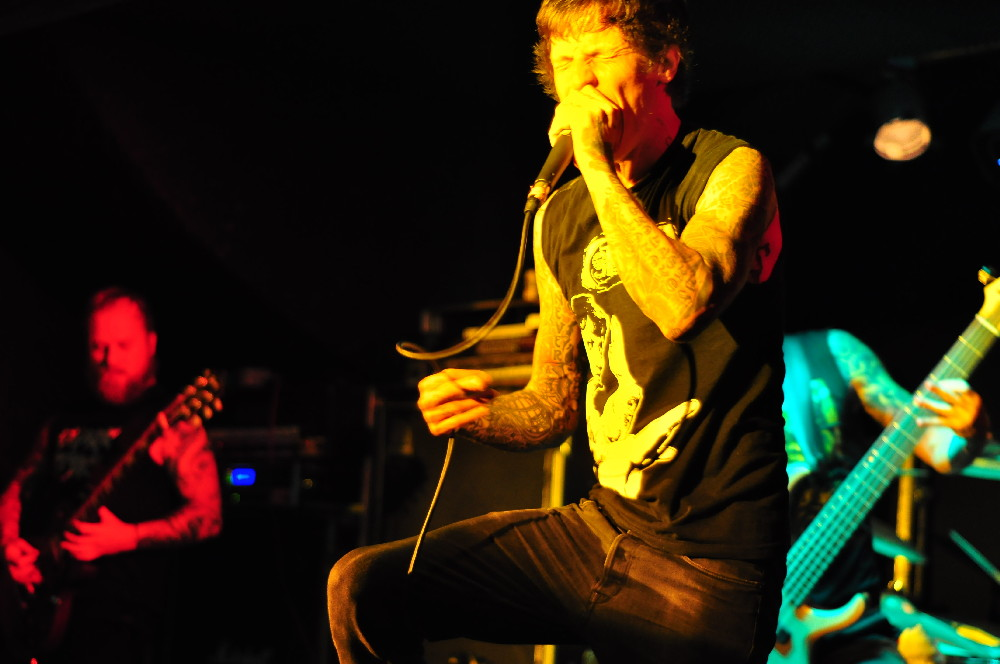 War from a Harlots Mouth live at a concert in Paris in 2009.